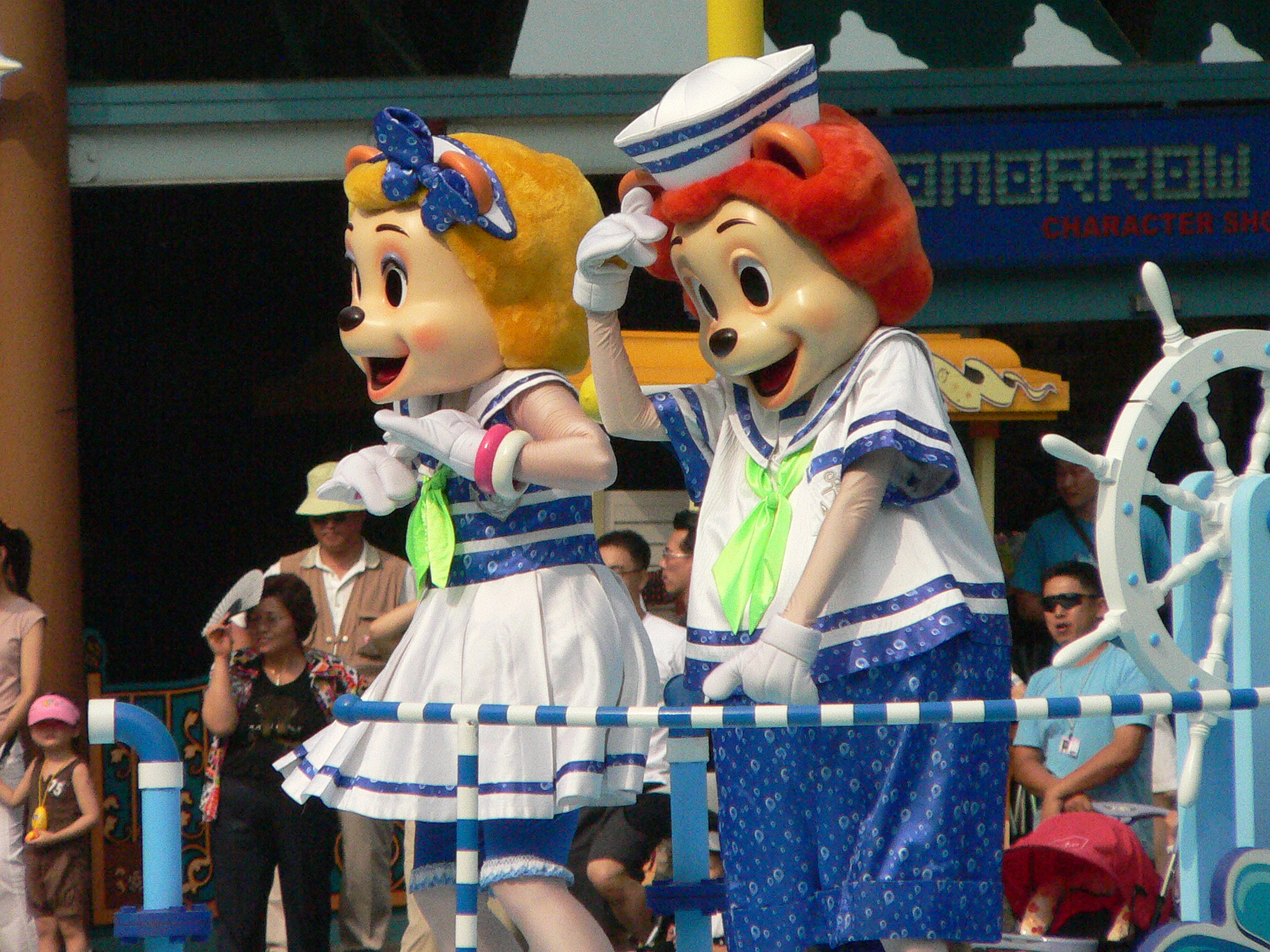 splash mascots. Korean Amusement park.